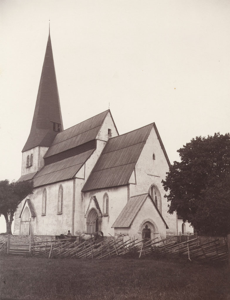 När church, on the island of Gotland.